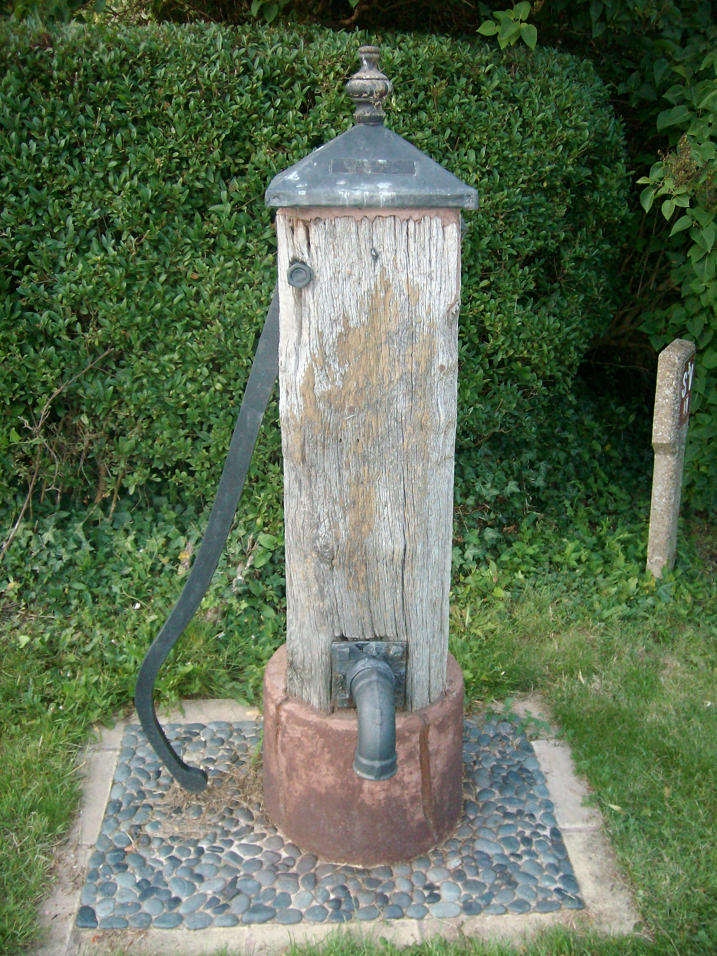 Yelvertoft village pump. The inscription reads: YELVERTOFT VILLAGE OLD PARISH PUMP Constructed circa AD ... MCM [1900] Preserved circa AD ... MM [2000]